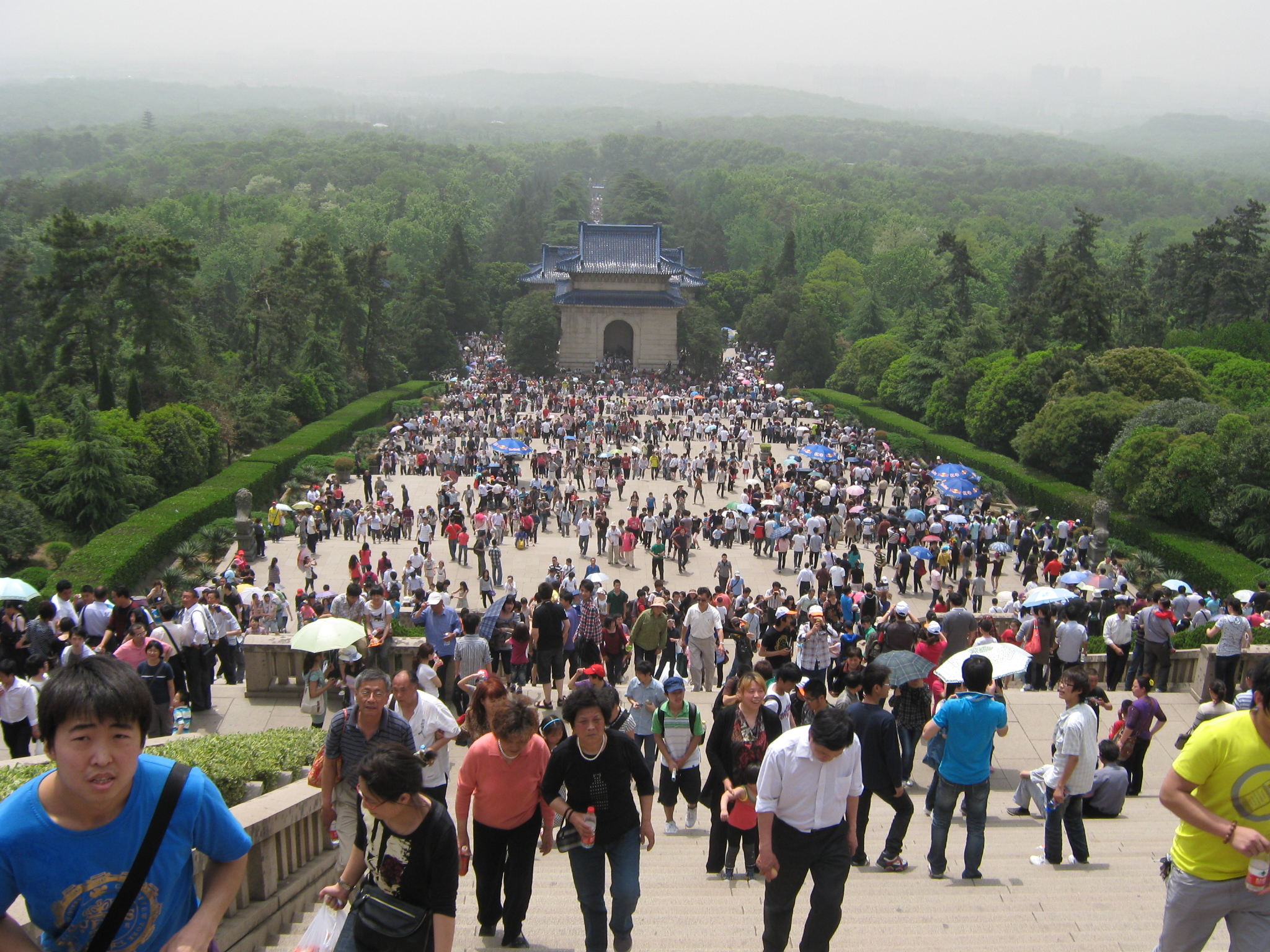 Sun Yat-sen Mausoleum at 1st May 2011 (Labor Day)